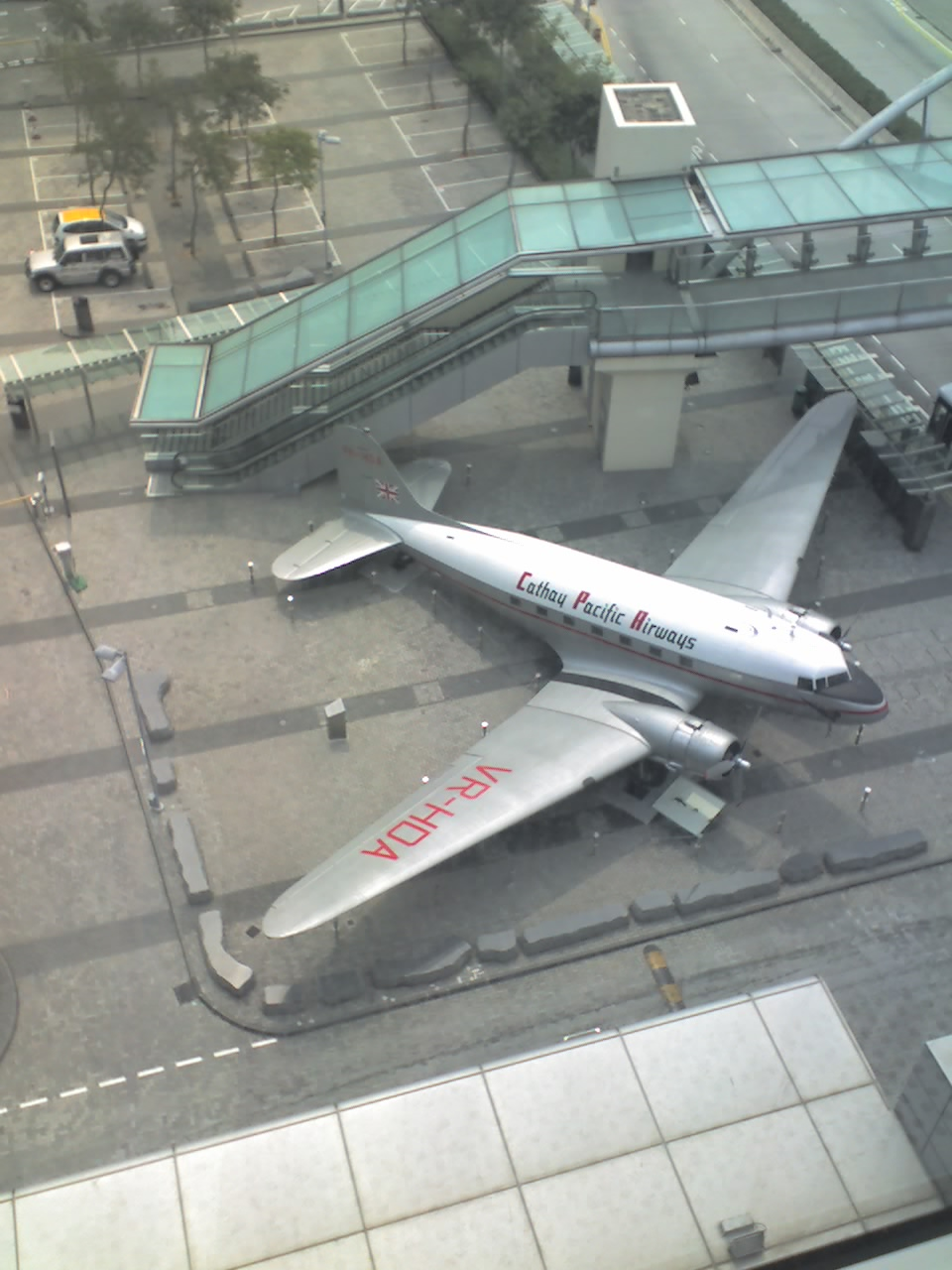 "Nikki" outside the Cathay City, Hong Kong.